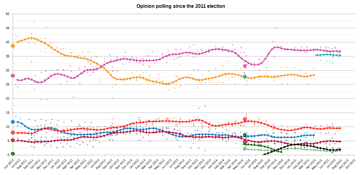 Opinion polling 15-day average leading up to the Portuguese legislative election Social Democratic Party Socialist Party Democratic and Social Centre-People's Party Democratic Unity Coalition Left Bloc Portugal Alliance (coalition of Social Democratic Party and Democratic and Social Centre-People's Party) LIVRE/Tempo de Avançar Earth Party Partido Democrático Republicano